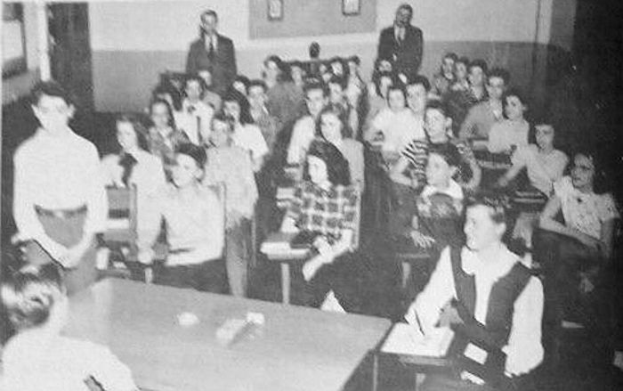 Student Council - Central Jr High School - Allentown PA